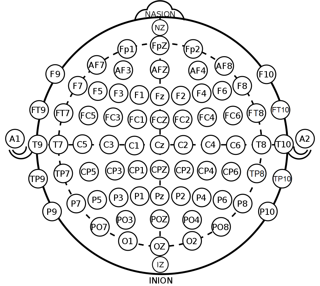 This is the correct version of the existing 10-20 system where the electrode positions CP8, CP10, FC8 and FC10 have been corrected to TP8, TP10, FT8 and FT10.